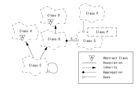 A Booch method class diagram. Originally presented Grady Booch (born 1955) in the 1991 book "Object Oriented Analysis and Design with Applications".